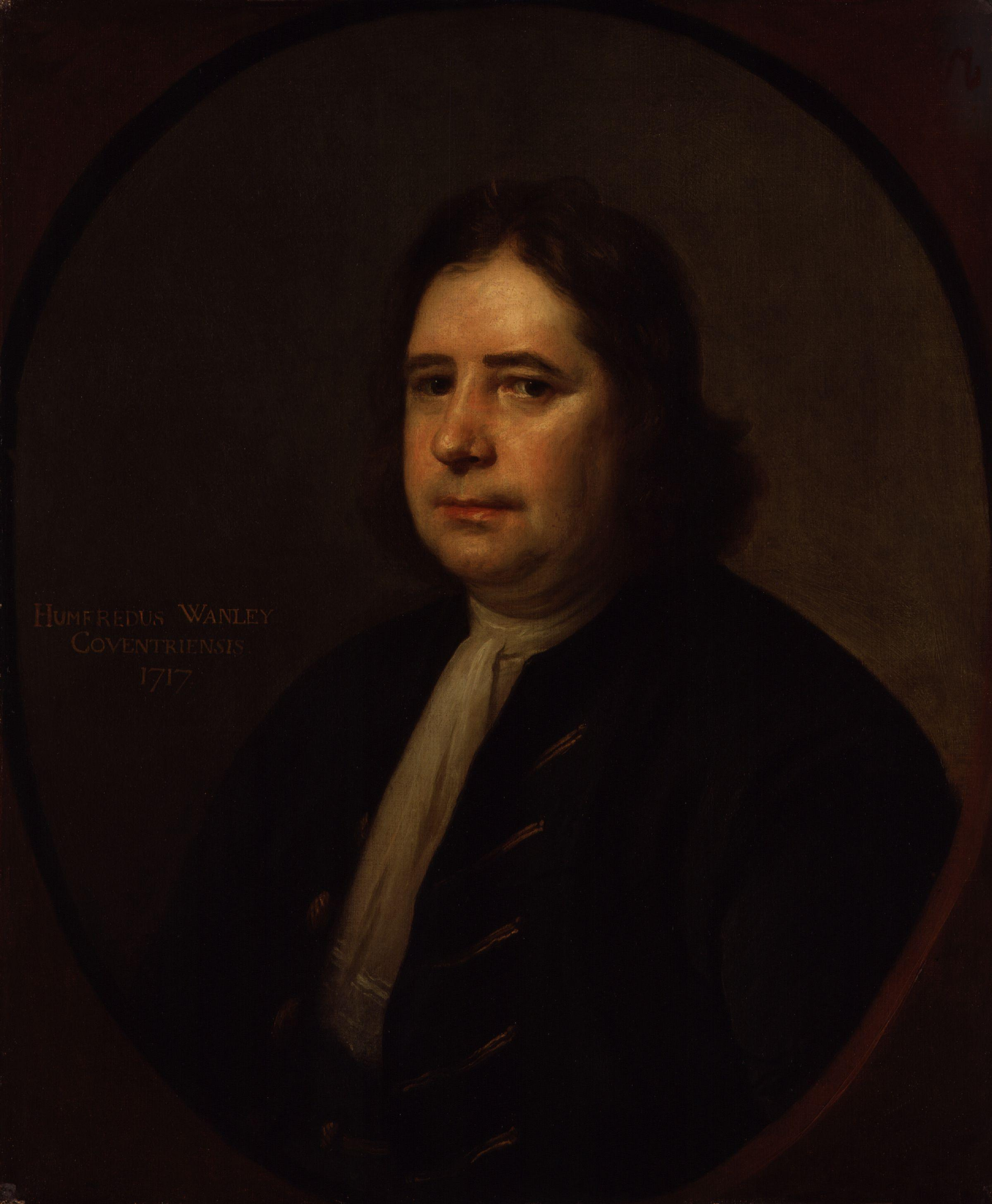 Humphrey Wanley, by Thomas Hill (died 1734). All images in this batch have been confirmed as author died before 1939 according to the official death date listed by the NPG.